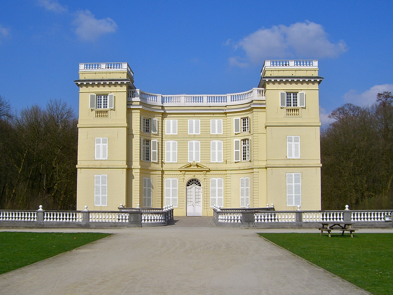 Kasteel d'Ursel at Hingene (Bornem), Belgium design of Giovanni Niccolò Servandoni.